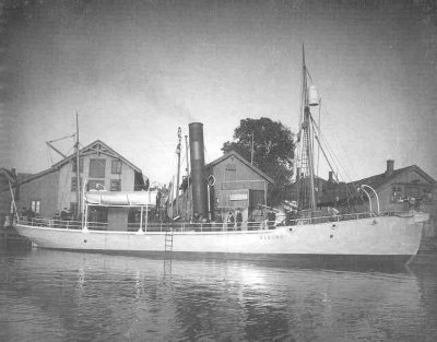 Whale catcher “Viking 1”, built 1908 at Kaldnes Mekaniske Verksted, Tønsberg, Norway